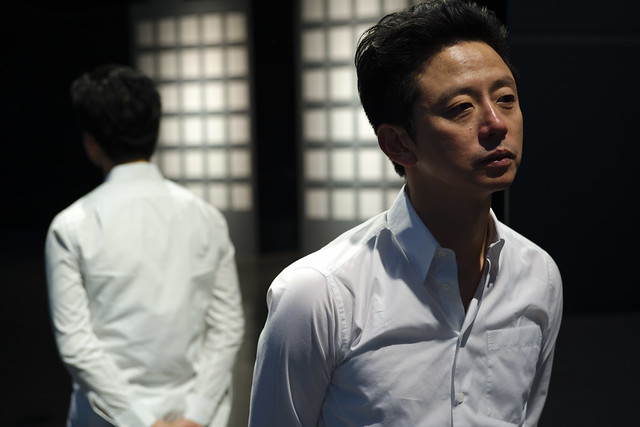 The artist Jun Yang at Kunsthaus Graz attending his retrospective exhibition in February, 2019.